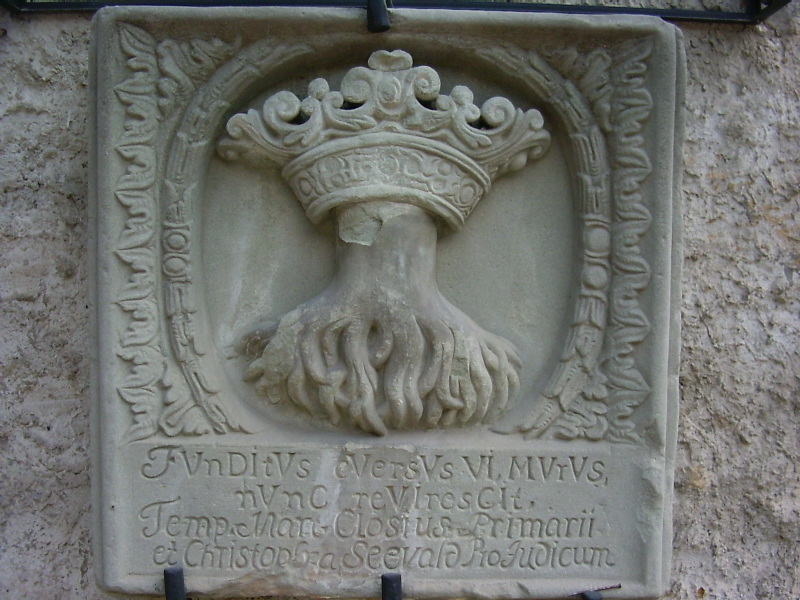 Coat of arms of medieval Corona